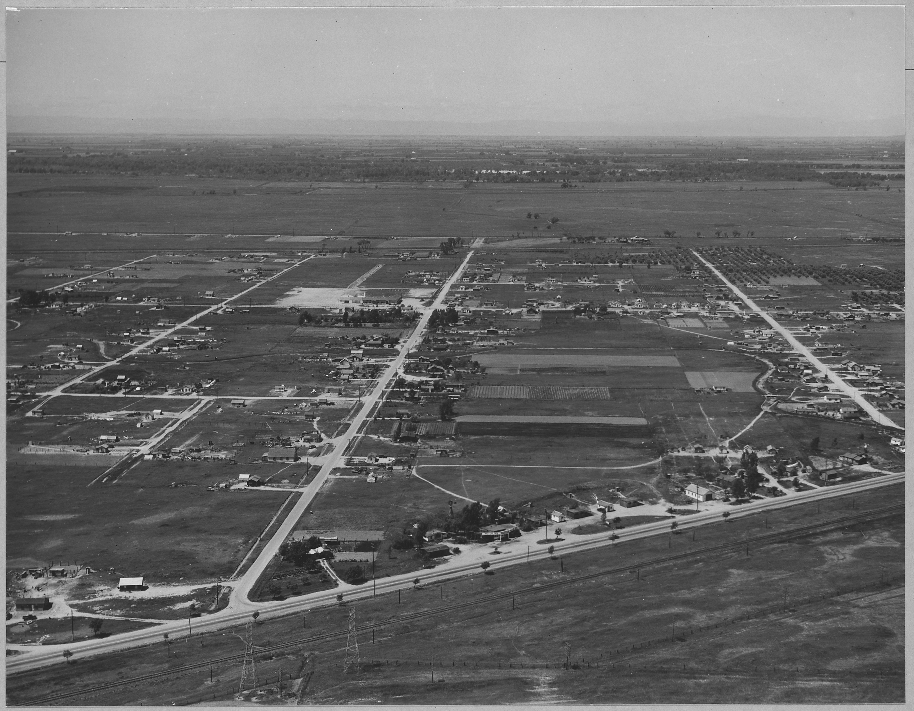 Scope and content: Full caption reads as follows: Olivehurst, Sutter County, California. Another air view of Olivehurst tract looking west.